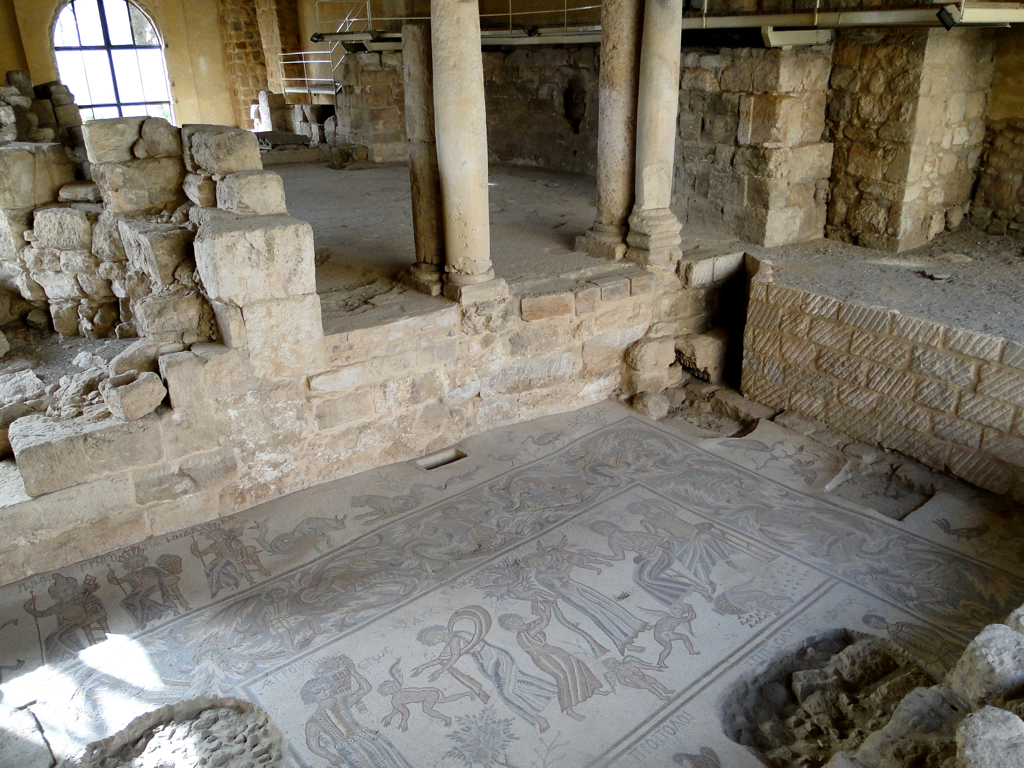 Interior of Hippolytus Hall with the Hippolytus mosaic on the floor. Located in the Archaeological Park of Madaba, Jordan.